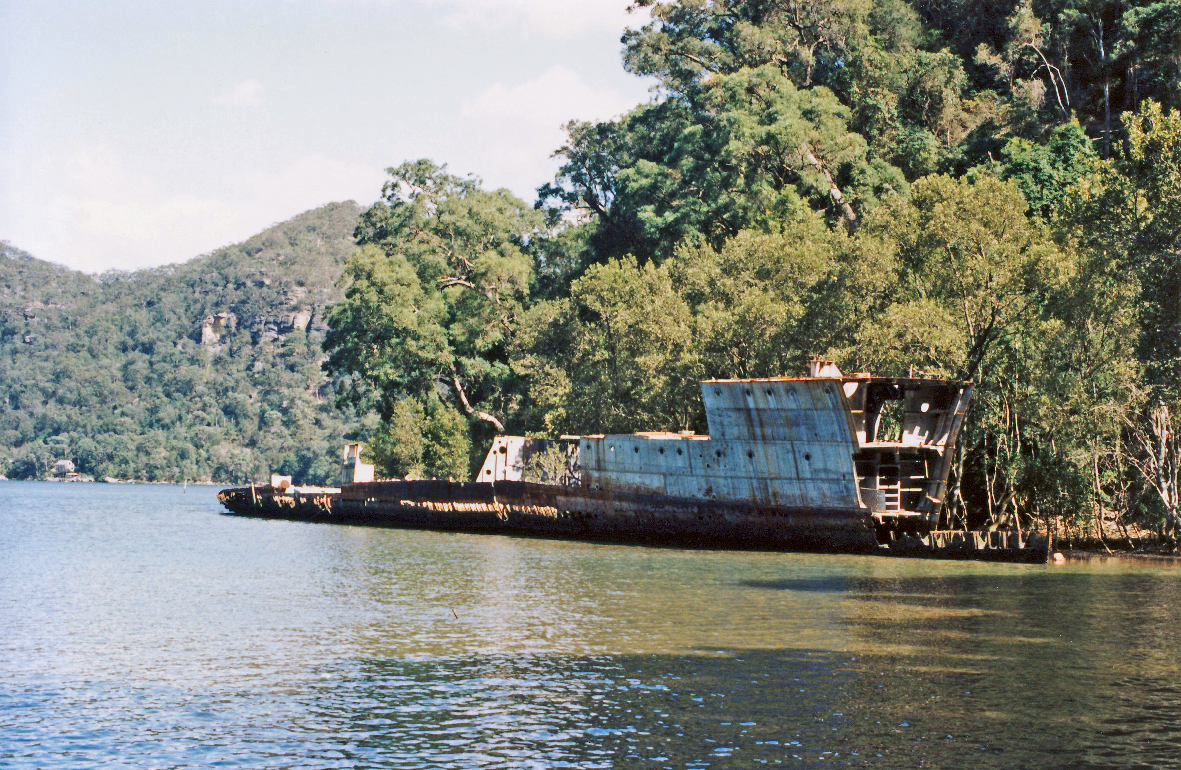 View of starboard side of the Sydney